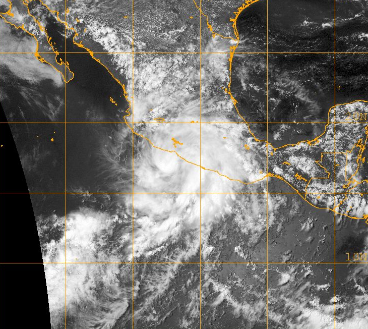 Satellite image of Tropical Depression Two-E near the southwest Mexican coast